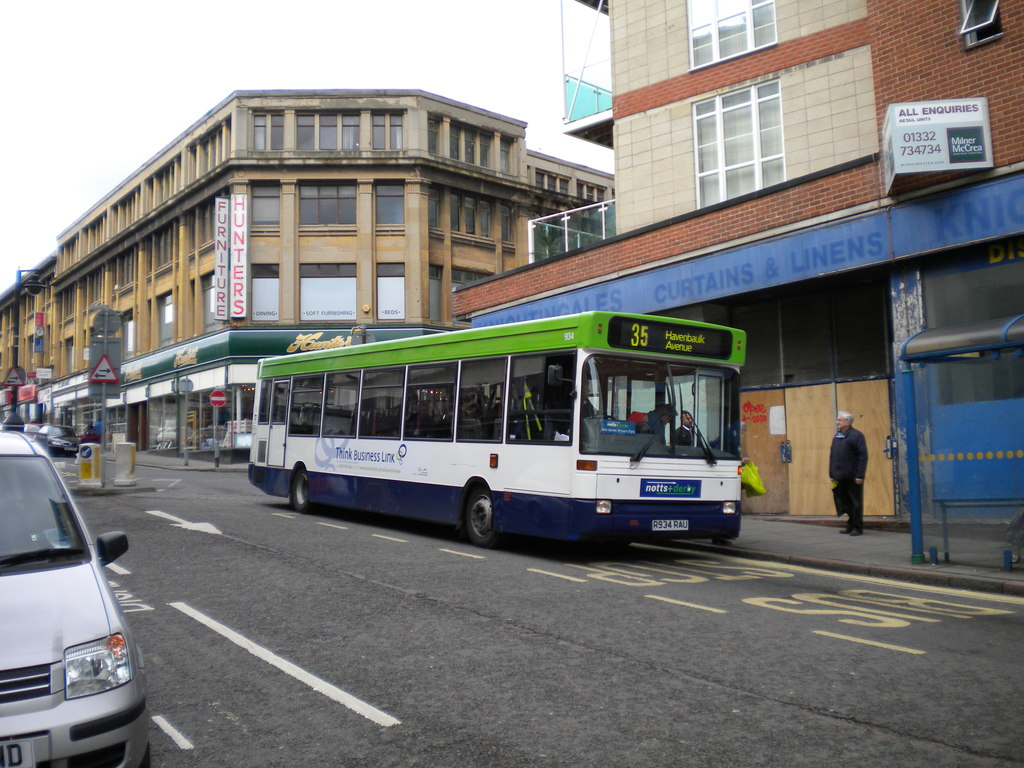 Bus on Babington Lane, Derby